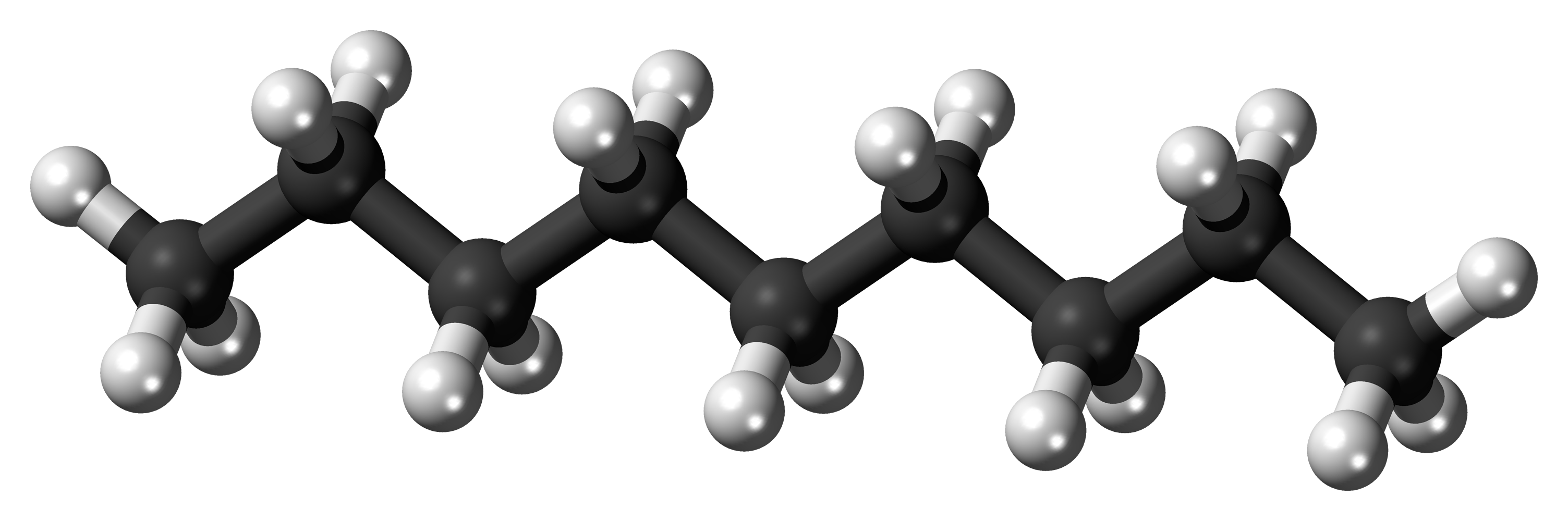 Ball-and-stick model of the nonane molecule, an alkane with nine carbon atoms. Color code: Carbon, C: black Hydrogen, H: white